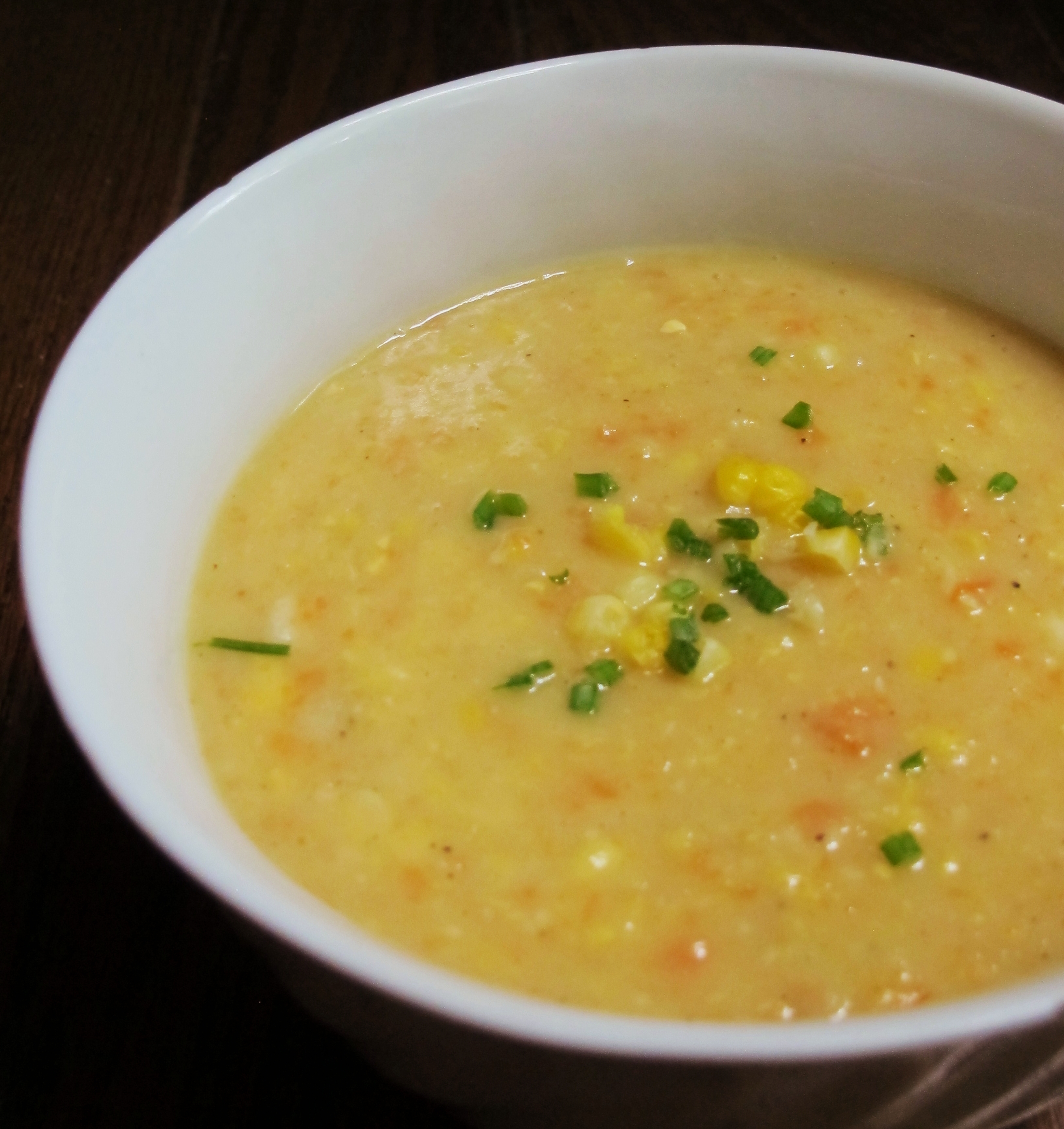 Vegan Garden Corn Chowder with Chives